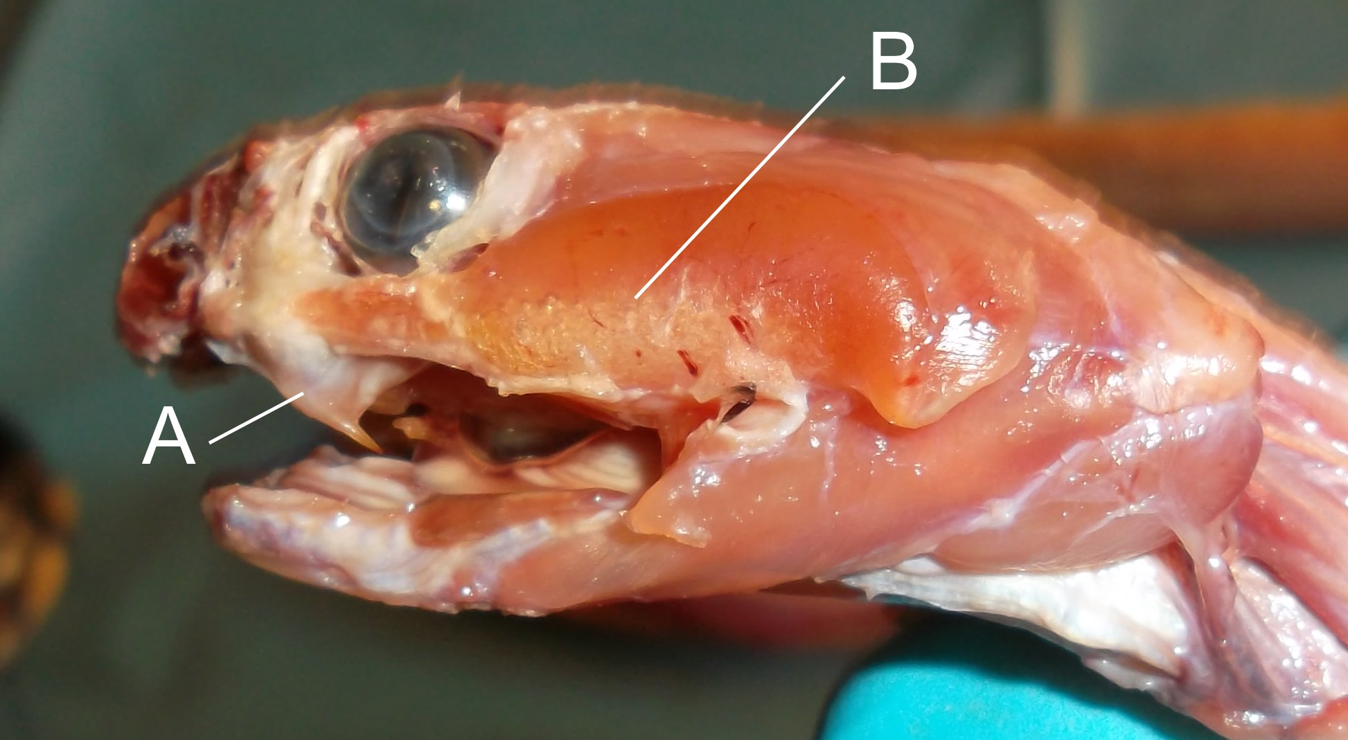 Dissected head of a dead forest cobra (Naja melanoleuca). Only the skinwas removed to make muscles, the eye and most importantly (A) the fangs and (B) the venom gland visible.